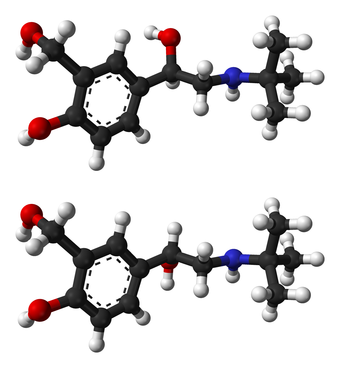 Ball-and-stick model of the (R)-salbutamol (top) and (S)-salbutamol (bottom) molecules, both C13H21NO3 . X-ray crystallographic data from J. M. Leger, M. Goursolle, M. Gadret et A. Carpy (April 1978). "Structure cristalline du sulfate de salbutamol [tert-butylamino-2 (hydroxy-4 hydroxyméthyl-3 phényl)-1 éthanol.0.5H2SO4]". Acta Cryst. B34 (4): 1203-1208. Image generated in Accelrys DS Visualizer.